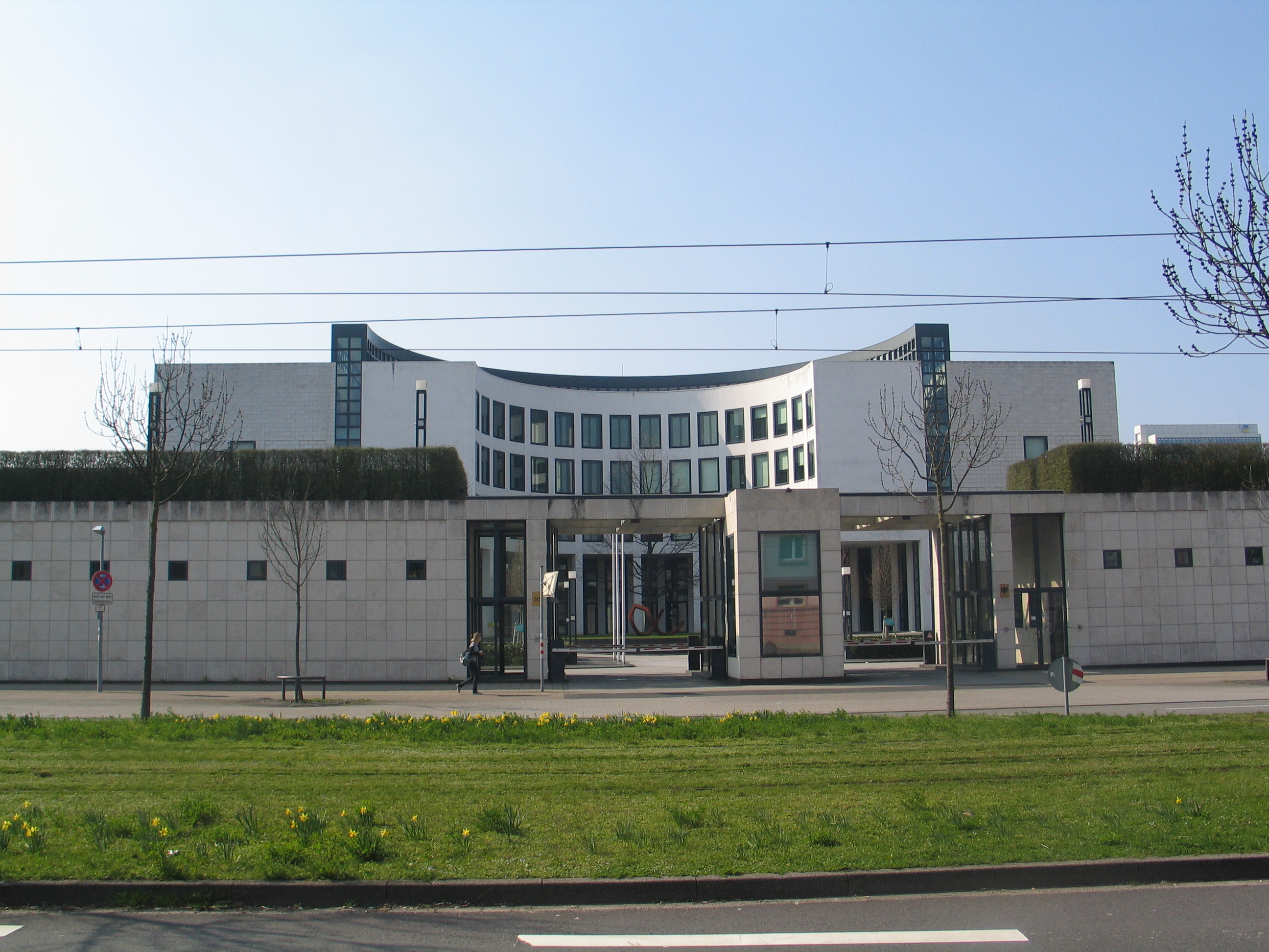 Seat of the Attorney General of Germany (Karlsruhe)